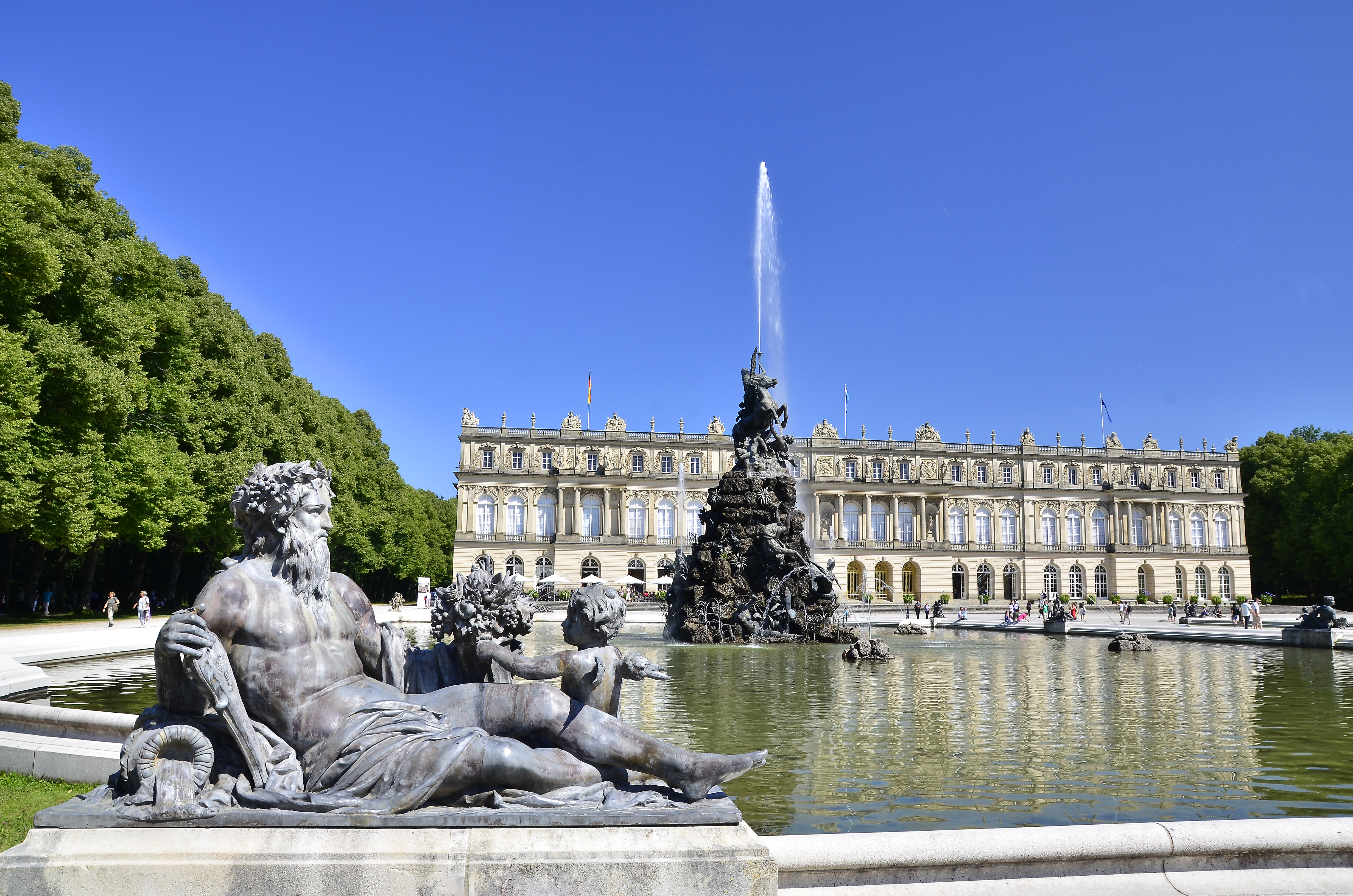 Herrenchiemsee Castle